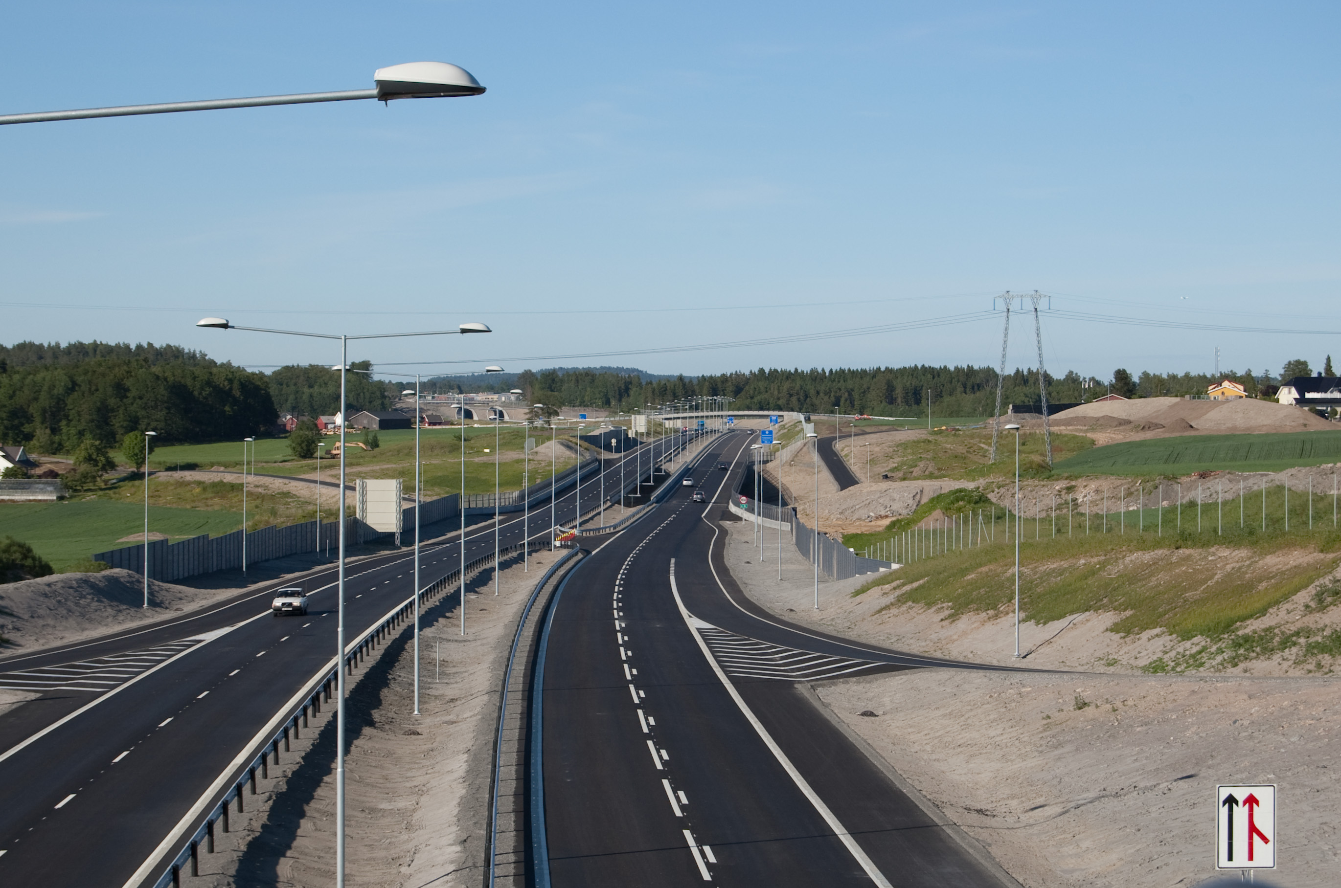 E18 highway seen from Ringdal, Larvik, Norway